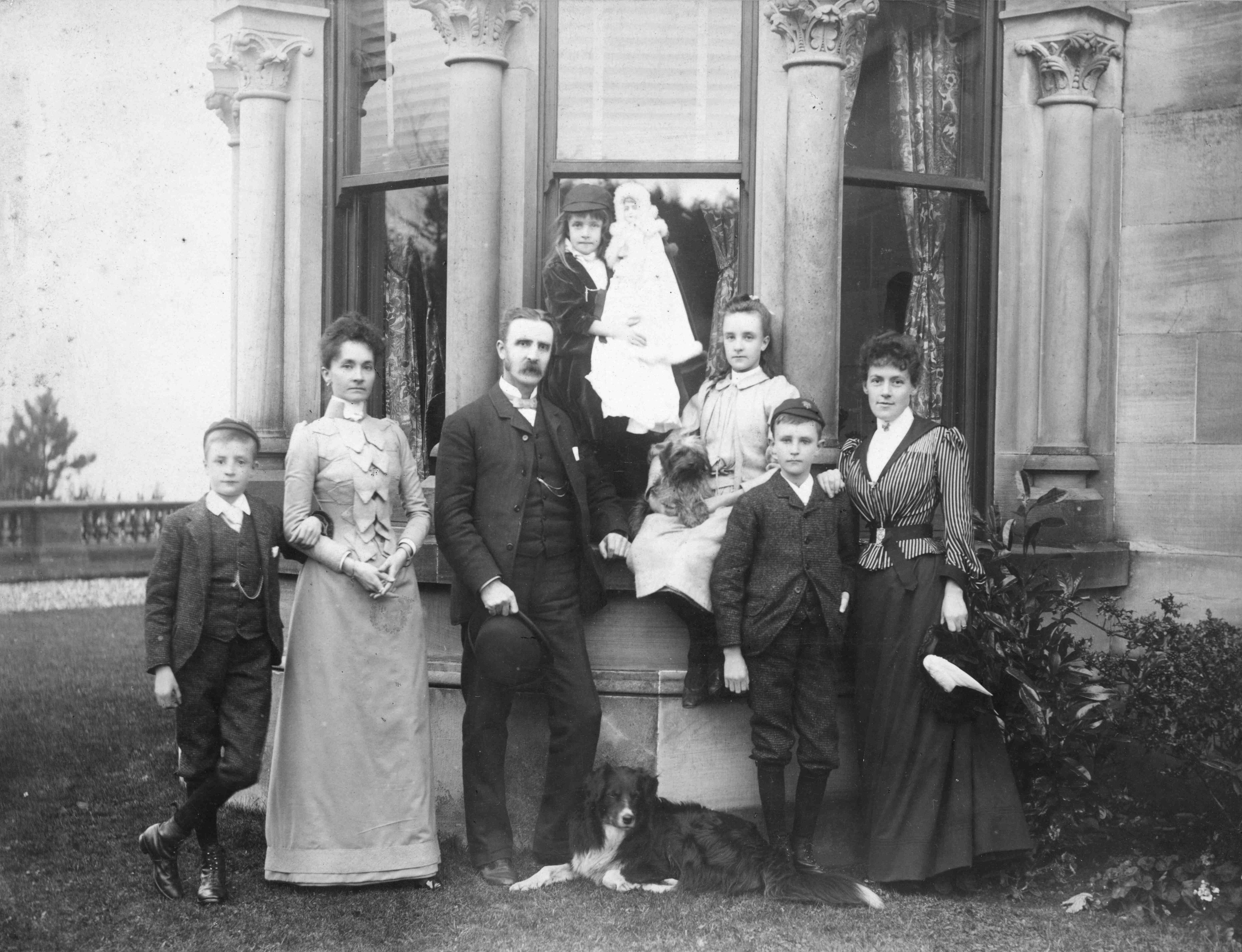 Samuel Cleland Davidson at Killaire House with Richard, Clara (his wife), Kathleen, May, James and cousin Susan on the day he went to visit India 1891. This is a scan of a family photo in the Bleakley Family archive owned by the copyright holder.